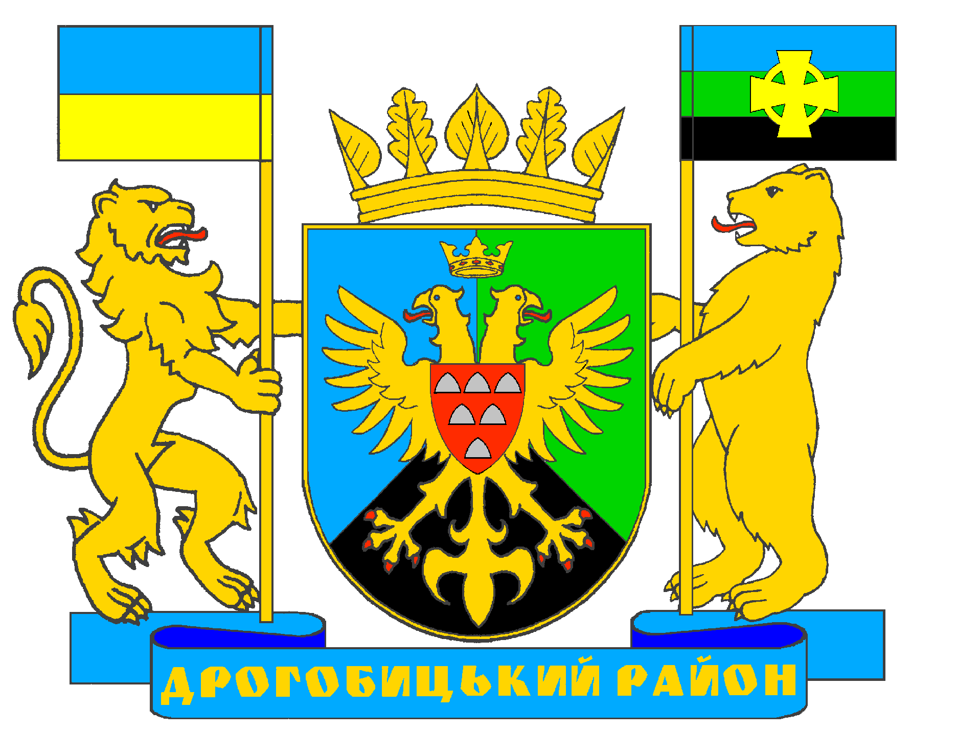 Coats of arms of Drohobytskyi Raion